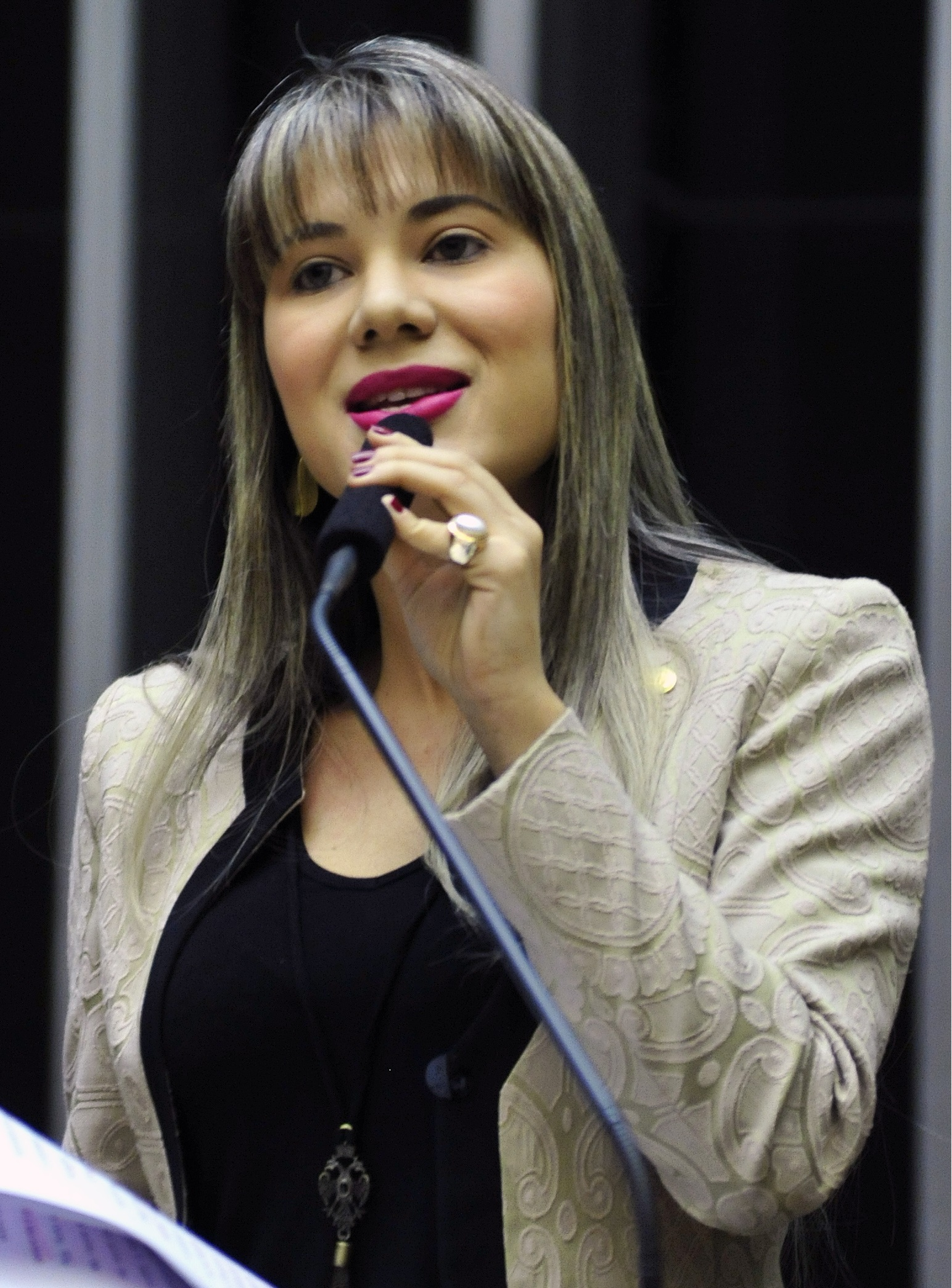 Brunny em maio de 2015.